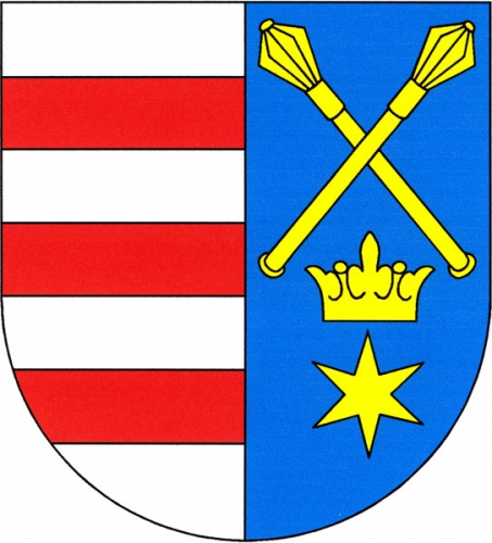 Coat of arms of municipality Svojšín, Tacov District, Czechia.